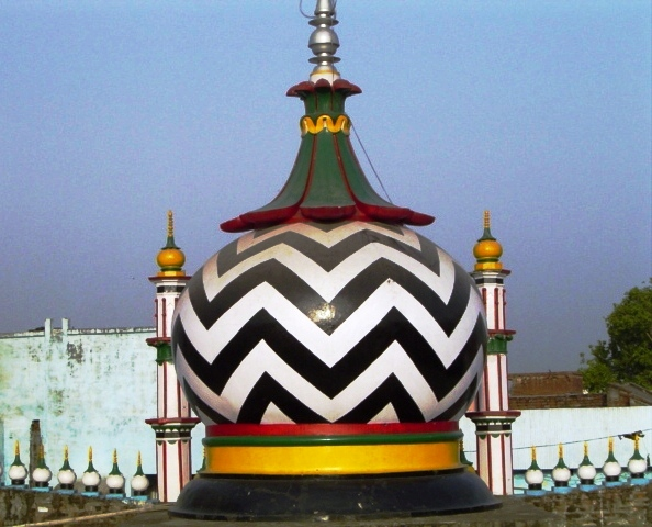 A back view of Dargah Aala Hazrat which is situated in Soudagaran Baraily in India